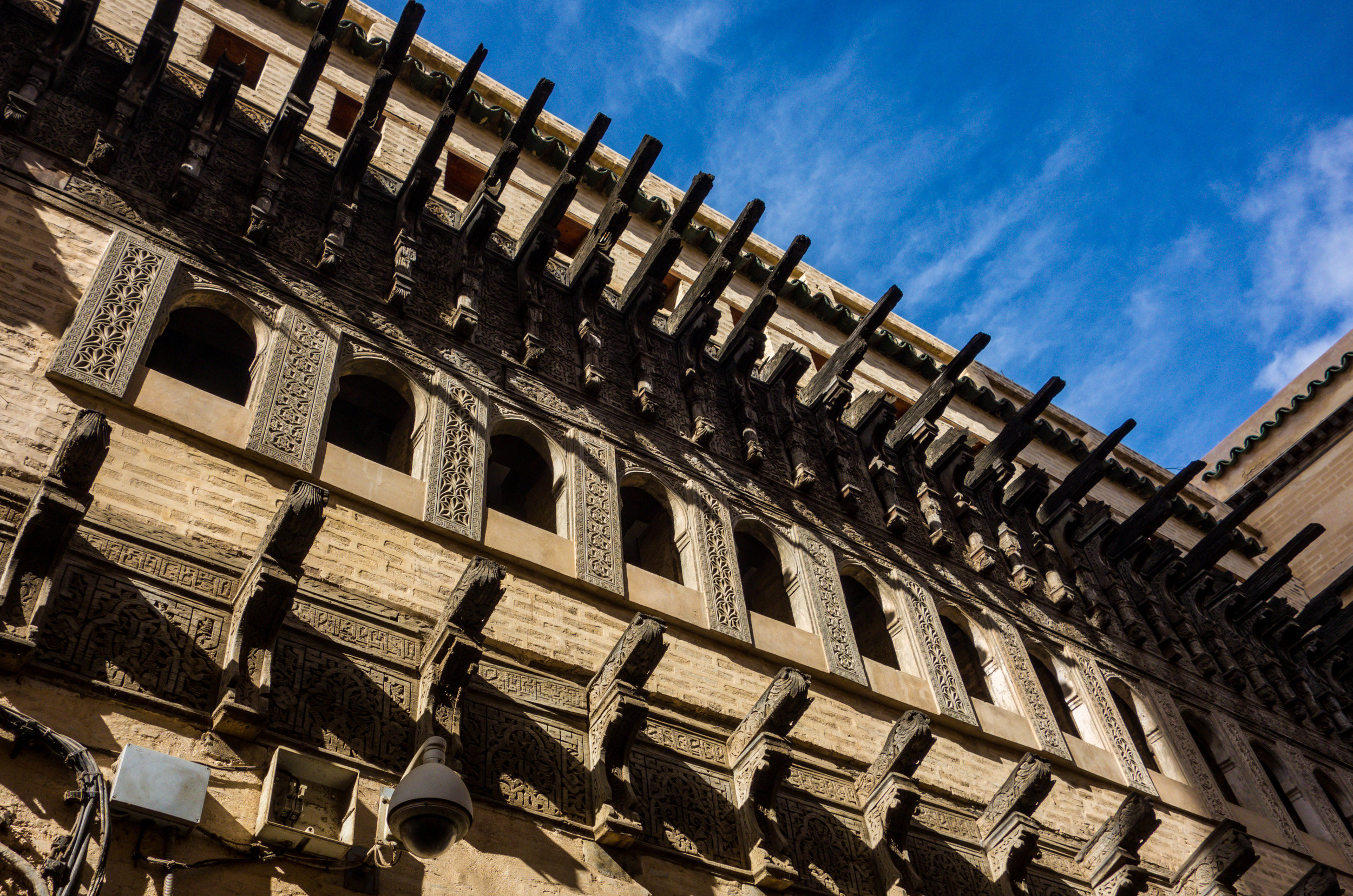 Morocco - Fes